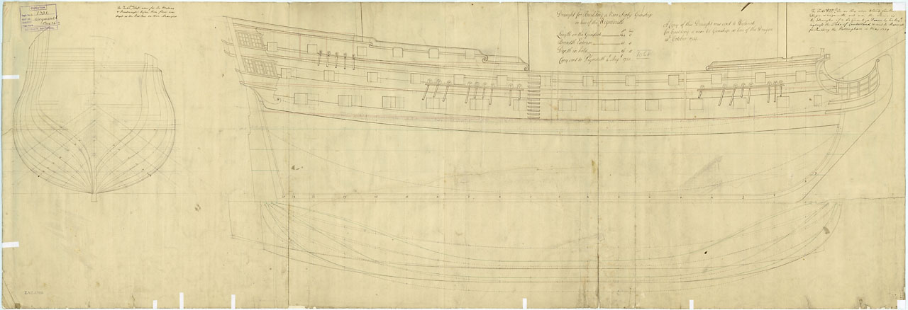 Weymouth (1736); Medway (1742); Dragon (1736); Dreadnought (1742); Nottingham (1745) Scale: 1:48. Plan showing the body plan, sheer lines, and longitudinal half-breadth for Weymouth (1736) and Dragon (1736). The plan includes the ticked outlines aft for Medway (1742) and Dreadnought (1742) prior to alterations to the floor. The plan also illustrates the alterations forward and to the gunports for Nottingham (1745). All the ships were 1733 Establishment 60-gun Third (later Fourth) Rate, two-deckers. WEYMOUTH 1736